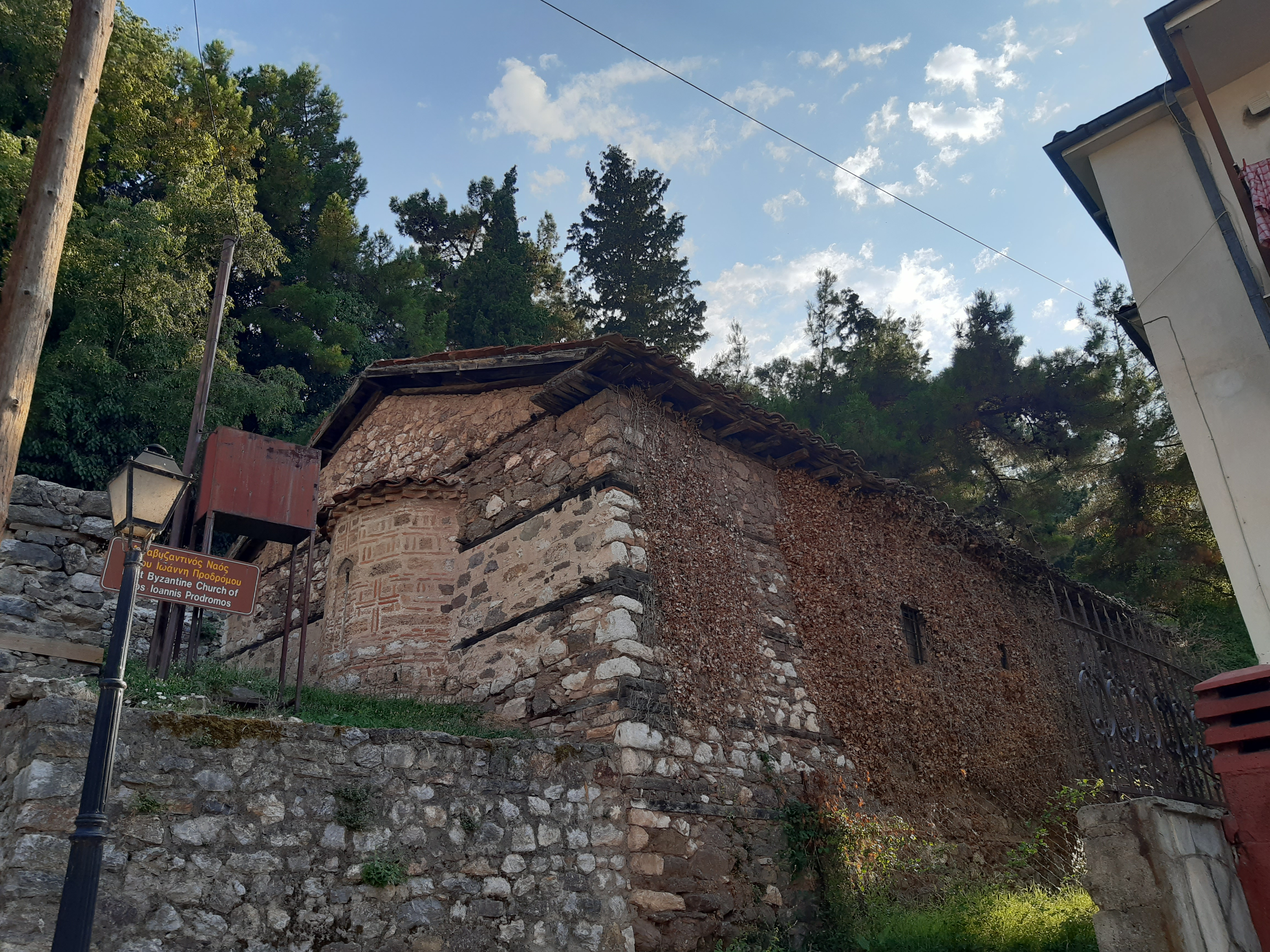 Saint John the Baptist Church, Apozari